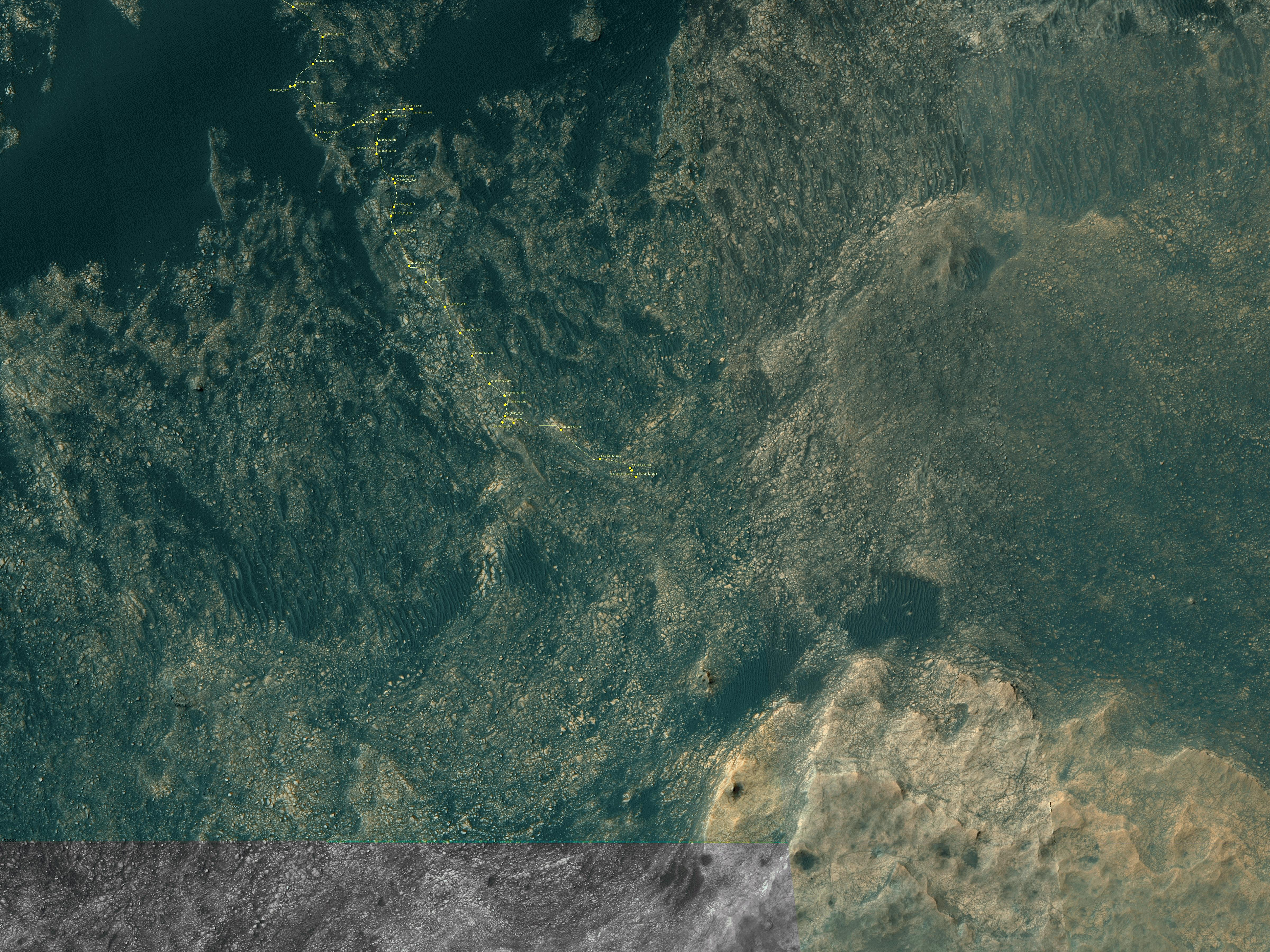 05.22.2017 Curiosity Rover's Location for Sol 1705 This map shows the route driven by NASA's Mars rover Curiosity through the 1705 Martian day, or sol, of the rover's mission on Mars (May 22, 2017). Numbering of the dots along the line indicate the sol number of each drive. North is up. From Sol 1703 to Sol 1705, Curiosity had driven a straight line distance of about 23.43 feet (7.14 meters). Since touching down in Bradbury Landing in August 2012, Curiosity has driven 10.25 miles (16.50 kilometers). The base image from the map is from the High Resolution Imaging Science Experiment Camera (HiRISE) in NASA's Mars Reconnaissance Orbiter.